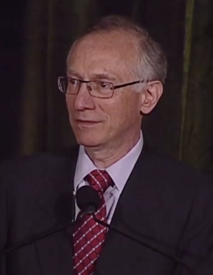 This is a picture of Harvey V. Fineberg, president of the Gordon and Betty Moore Foundation and was formerly president of the Institute of Medicine. This picture is a screenshot from a Vimeo video of NEHI's 10TH Anniversary Gala from October 2, 2013 IN Boston, MA.